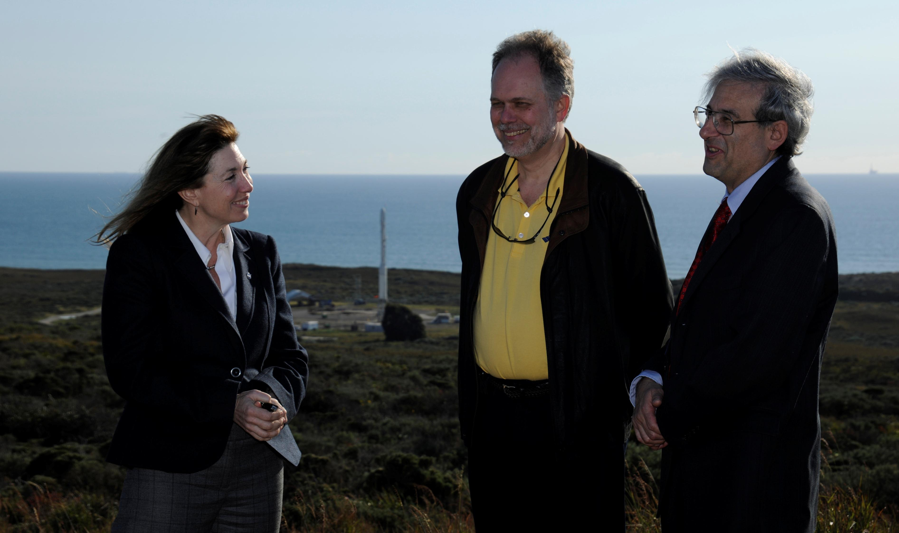 Just a few hours before the launch of NASA's Glory research satellite, NASA Deputy Administrator Lori B. Garver visited the mission's launch site at Vandenberg Air Force Base, California. With Garver at the Pacific coast launch site is Michael Freilich (far right), director of the Earth Science Division in NASA's Science Mission Directorate, and Hal Maring (center), Glory program scientist. Glory will join 13 other NASA missions currently orbiting our home planet that provide scientists with valuable data to study climate change and the entire Earth system.